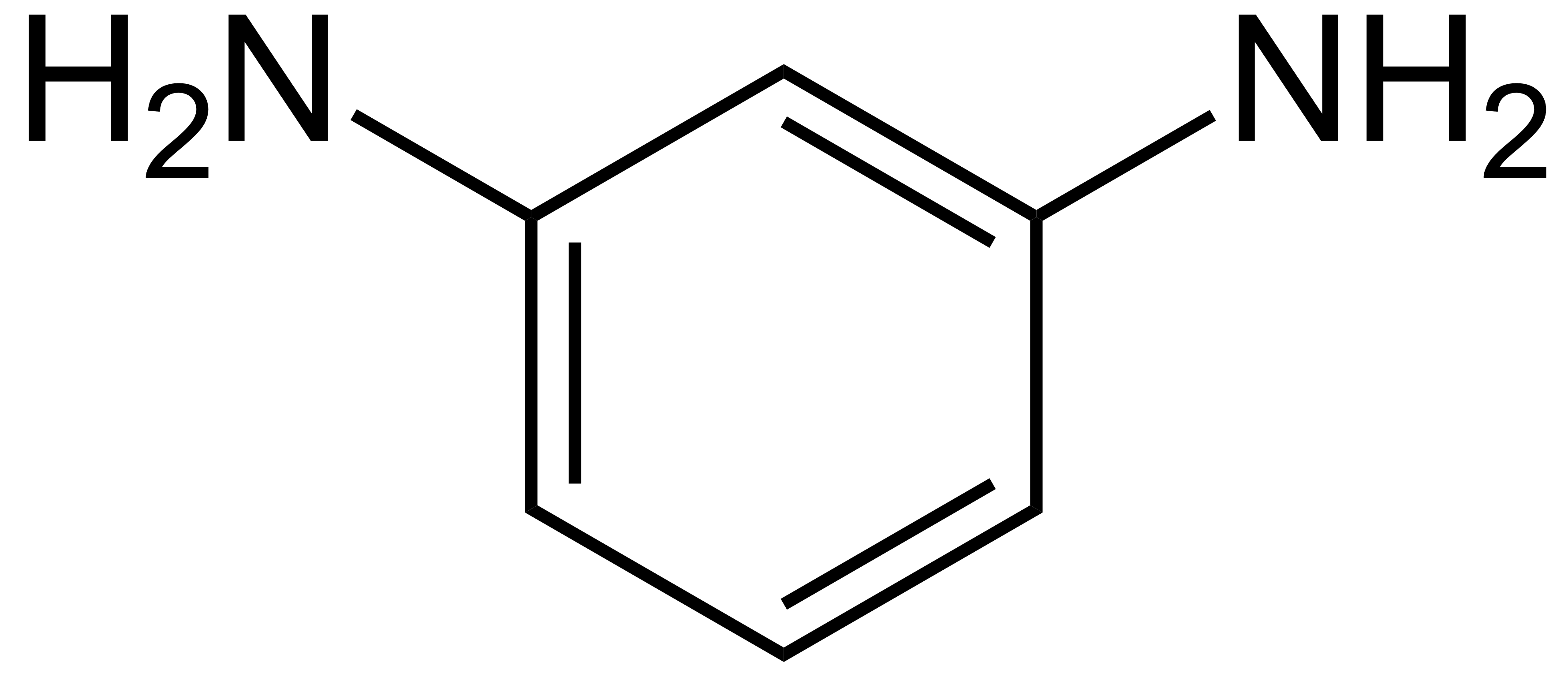 Chemical structure of M-phenylenediamine; b/w hires PNG